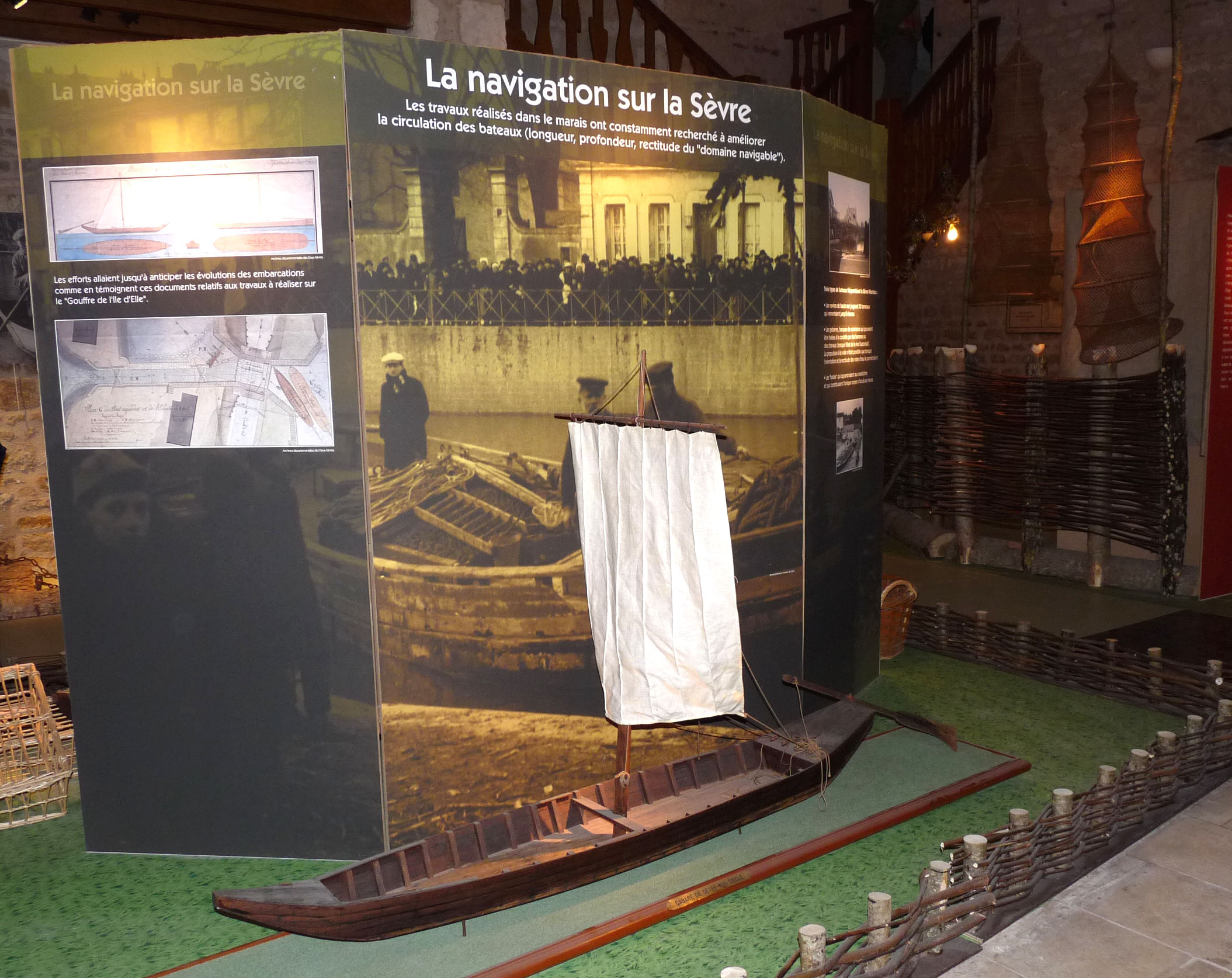 XVIIIth century gabare (Maison du Marais poitevin in Coulon (Deux-Sèvres)